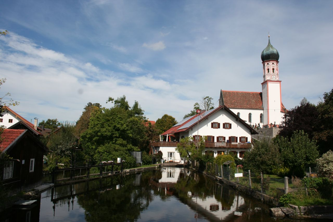 Sankt Agatha Kirche & River Ach, Uffing-am-Staffelsee